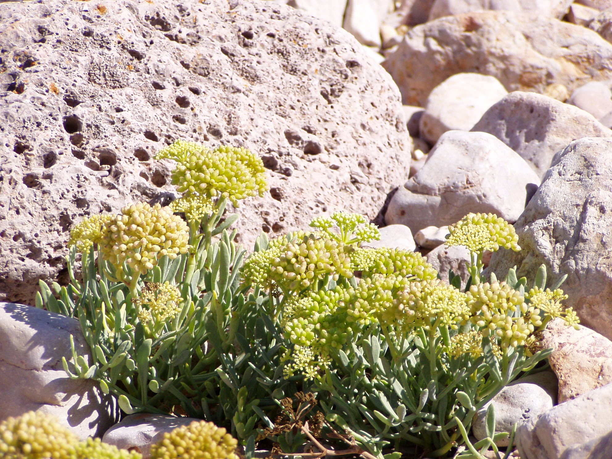 Rock Samphire (